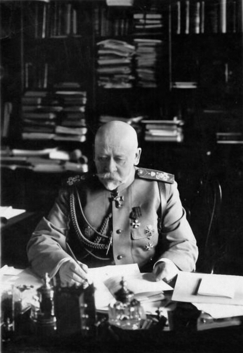 Vladimir Sukhomlinov, Russian war minister in 1909-1915